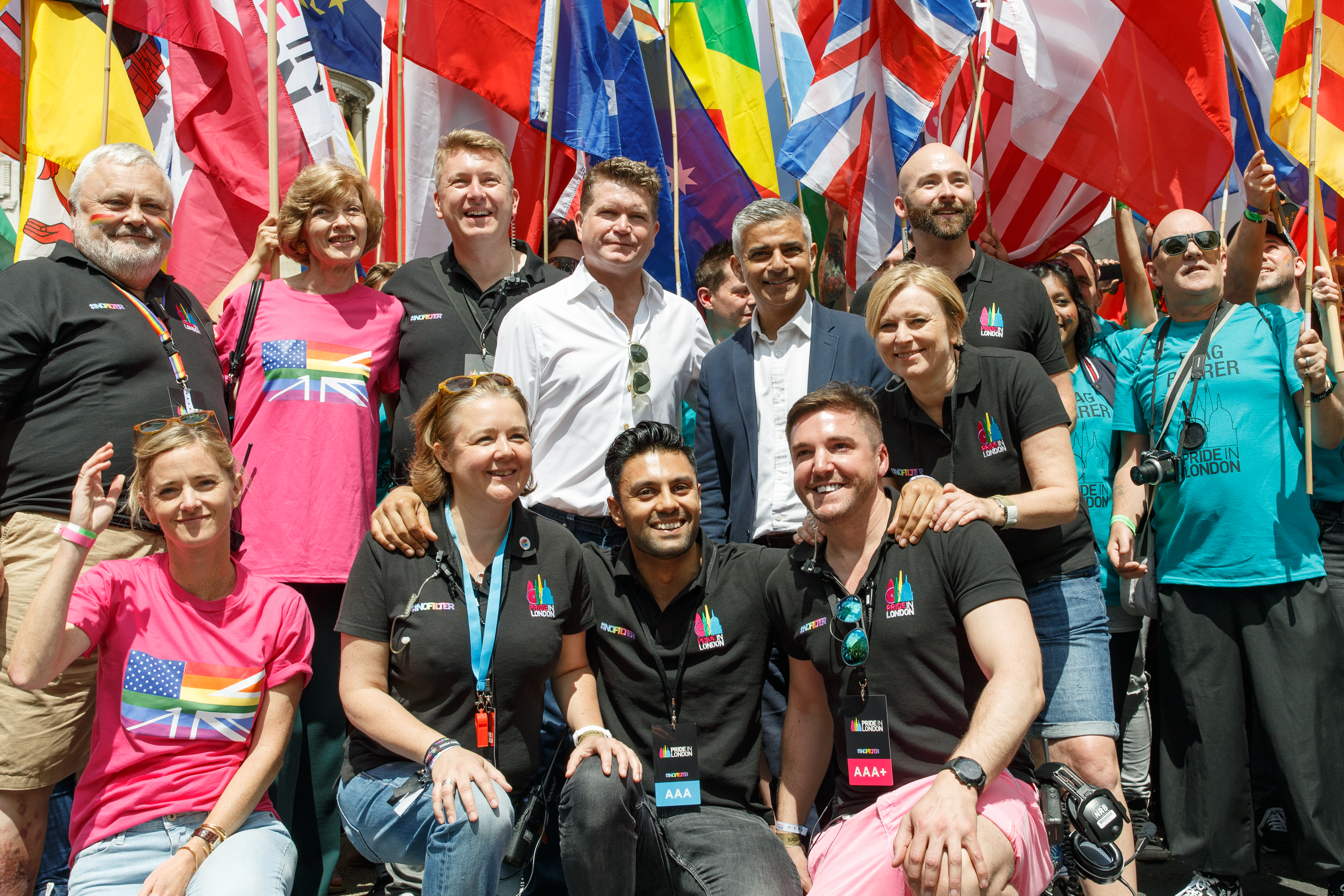 U.S. ambassador to the United Kingdom Matthew Barzun and Mayor of London Sadiq Khan along with senior members of the Pride in London team during a photo call before the parade at Pride in London 2016.